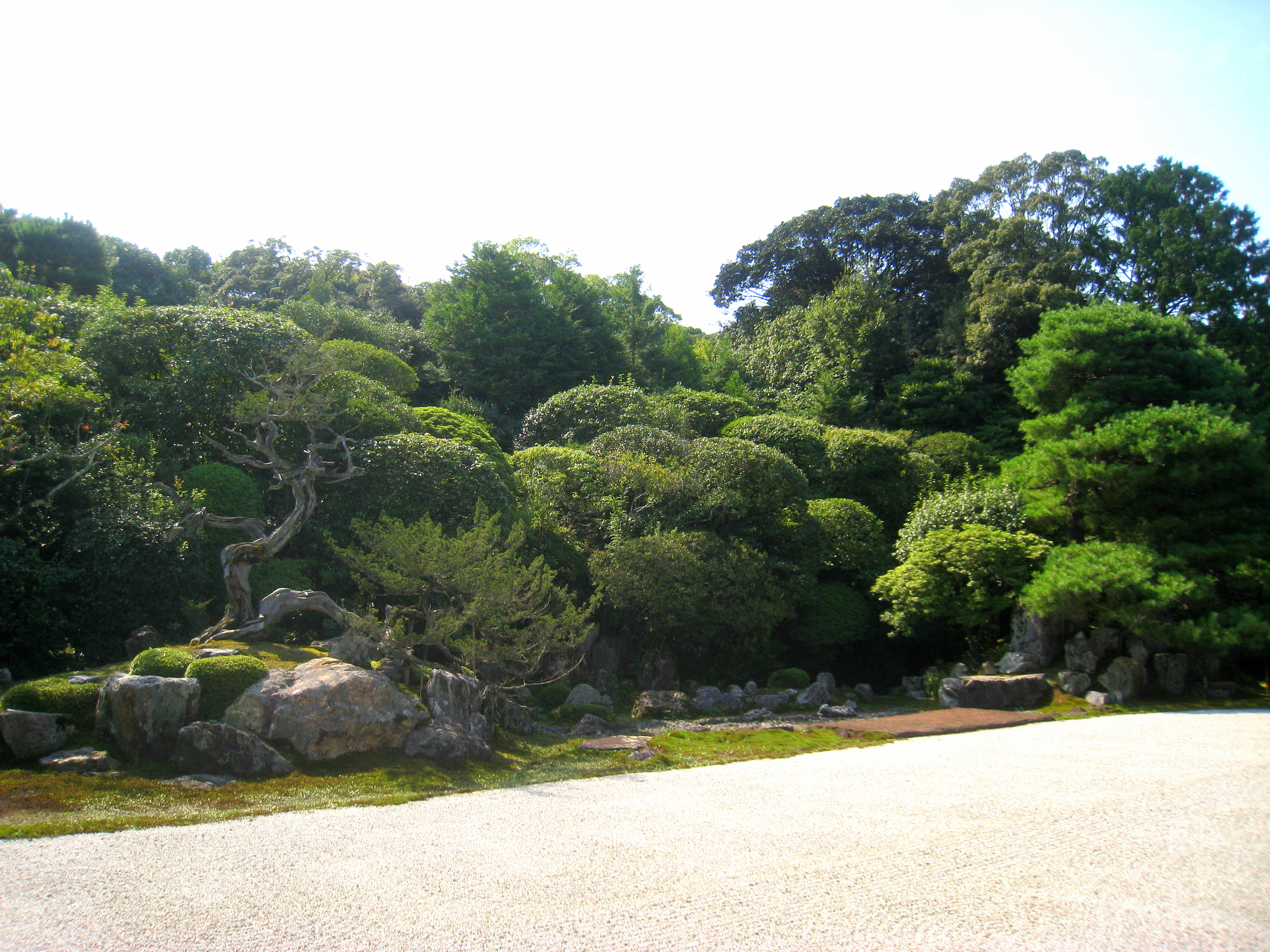 Crane and Turtle Garden, Konchi-in, Kyoto, Japan.